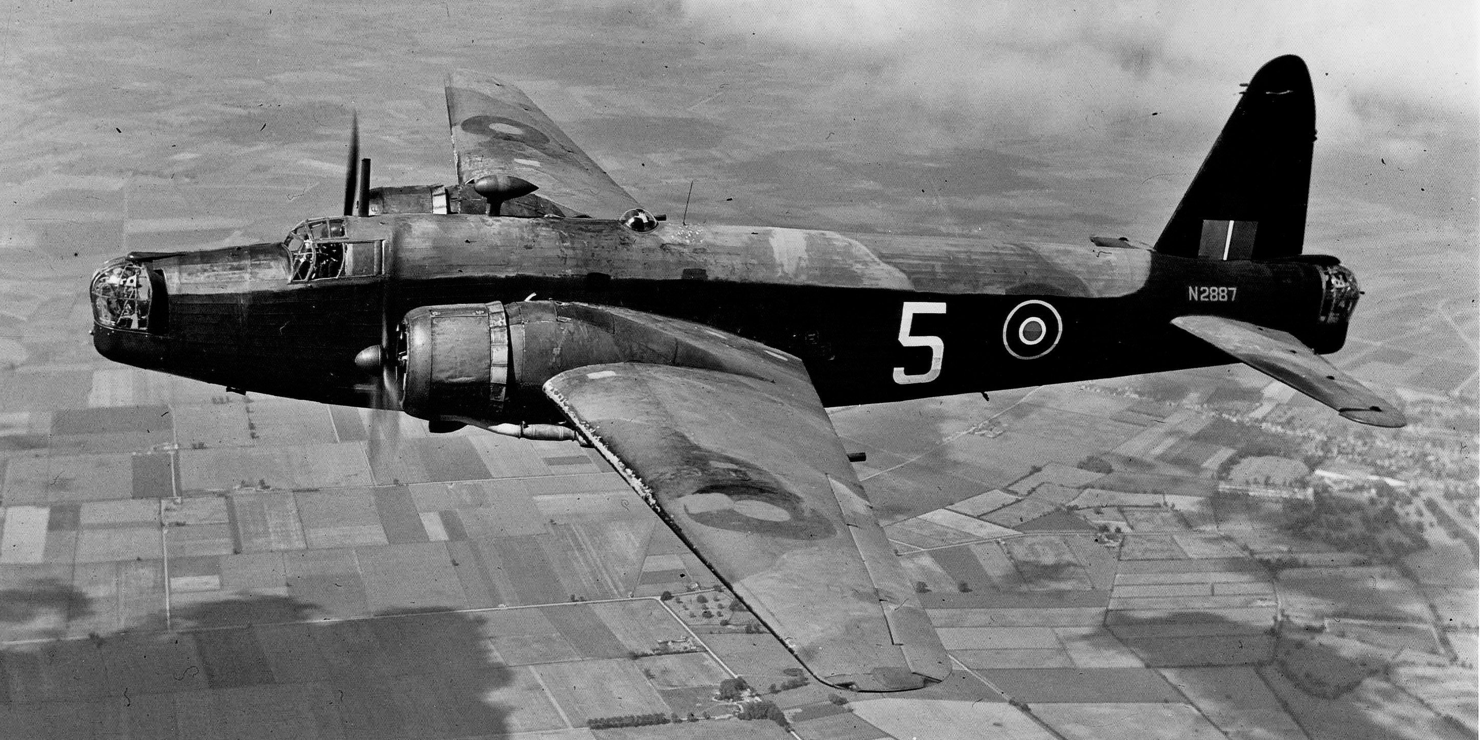 "Wellington Mk.IA (N2887) of the CGS (Central Gunnery School) based at Sutton Bridge flying south-east of Chatteris, 24th June, 1943. N2887 started out with No.99 Sqd based at Mildenhall. Retired from ops it later served with Nos. 11 and 15 OTUs, then the AAS (Air Armament School), then with the CGS from 6th April, 1942 to 23rd February, 1944. It was then despatched to the Far East, where it finished its days and was SOC (Struck Of Charge) on 26th April, 1945". Identification reference